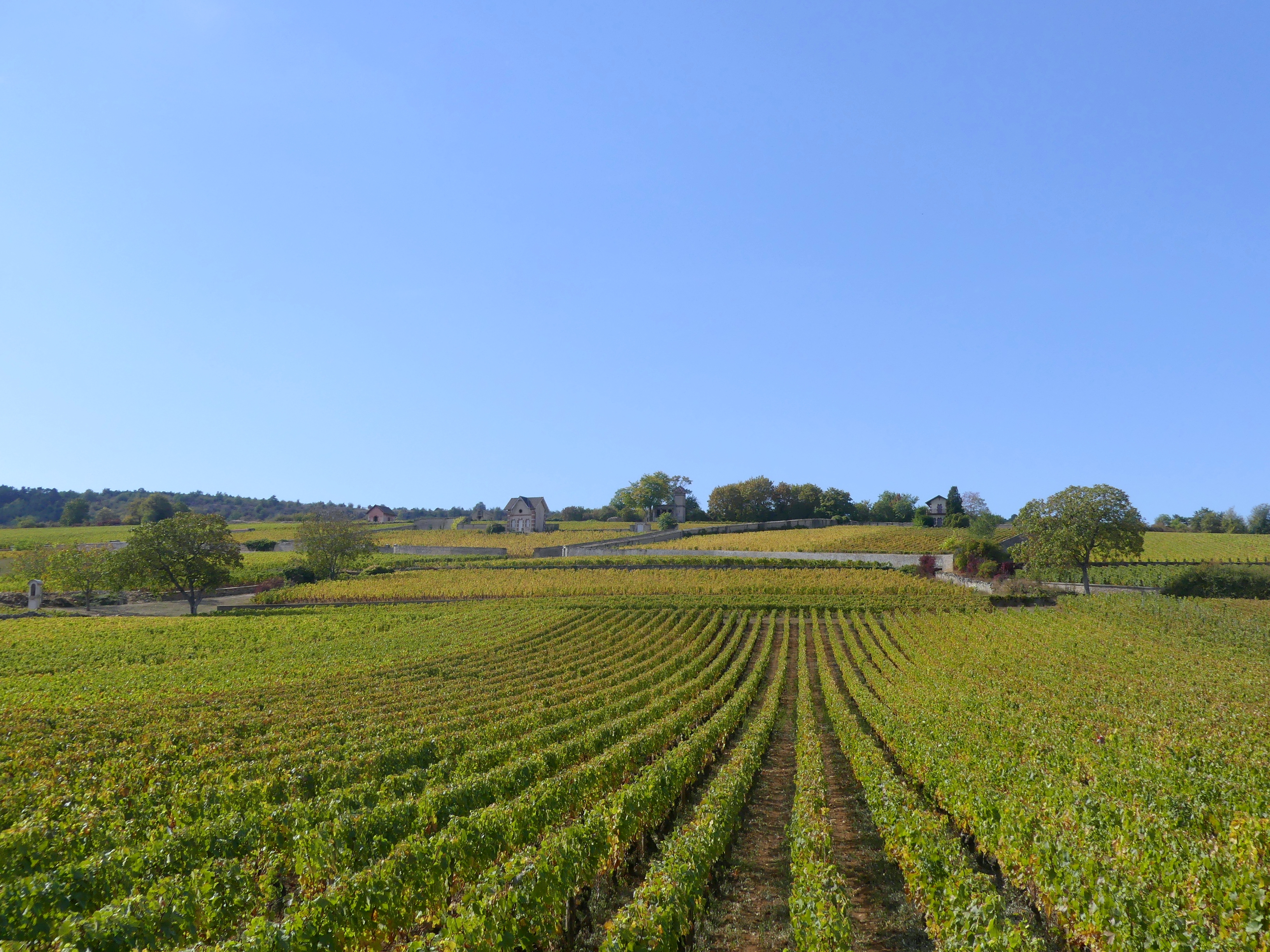 Sight of Meursault vineyards to the west, in Côte-d'Or, France.